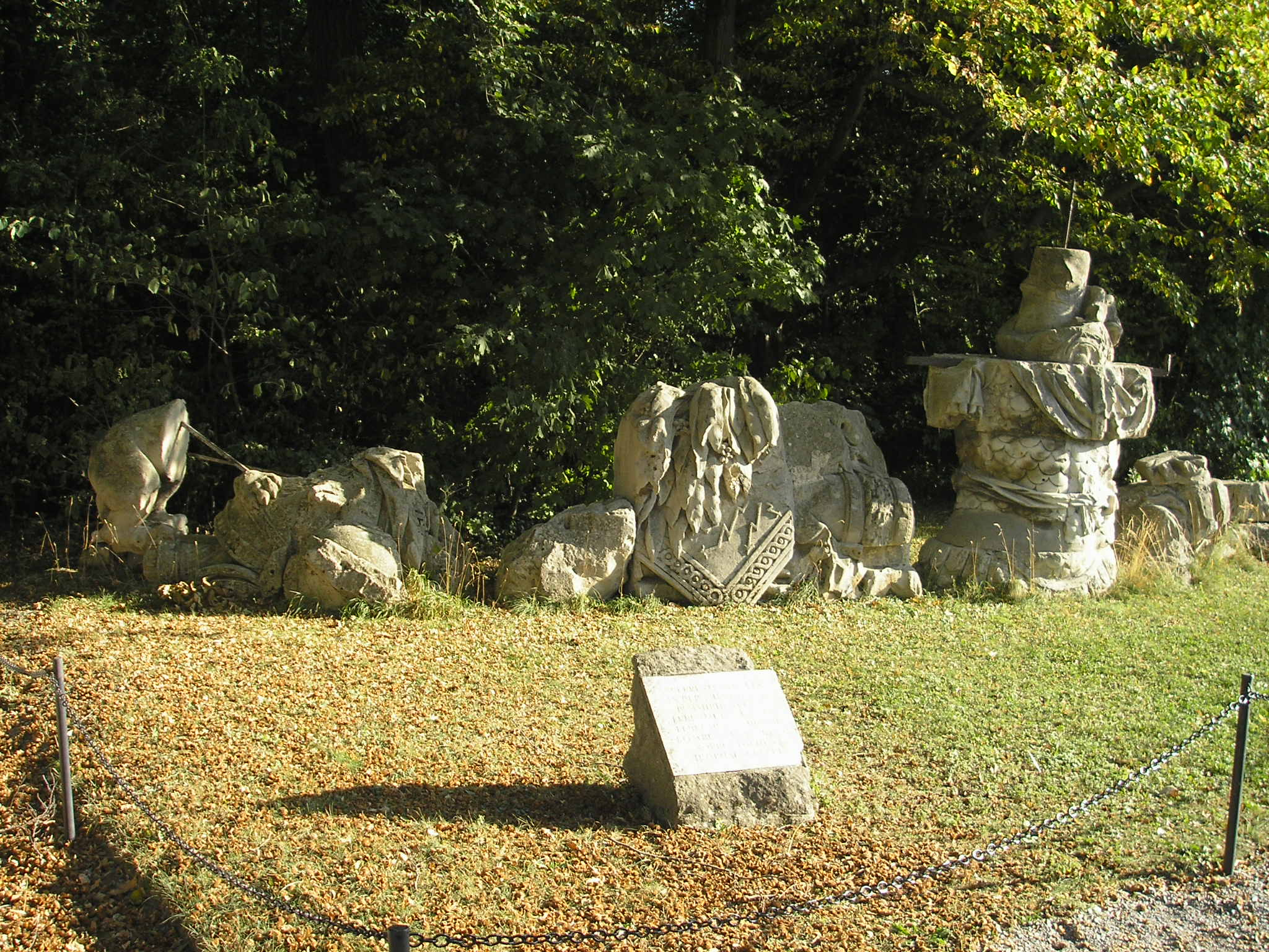 Image of the ruined pieces of the original Gloriette, which were destroyed during bombing raids in World War II in 1945.